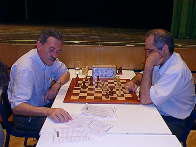 Konstantin Lerner and Giorgi Bagaturov (right) analyzing their game, Recklinghausen 1999